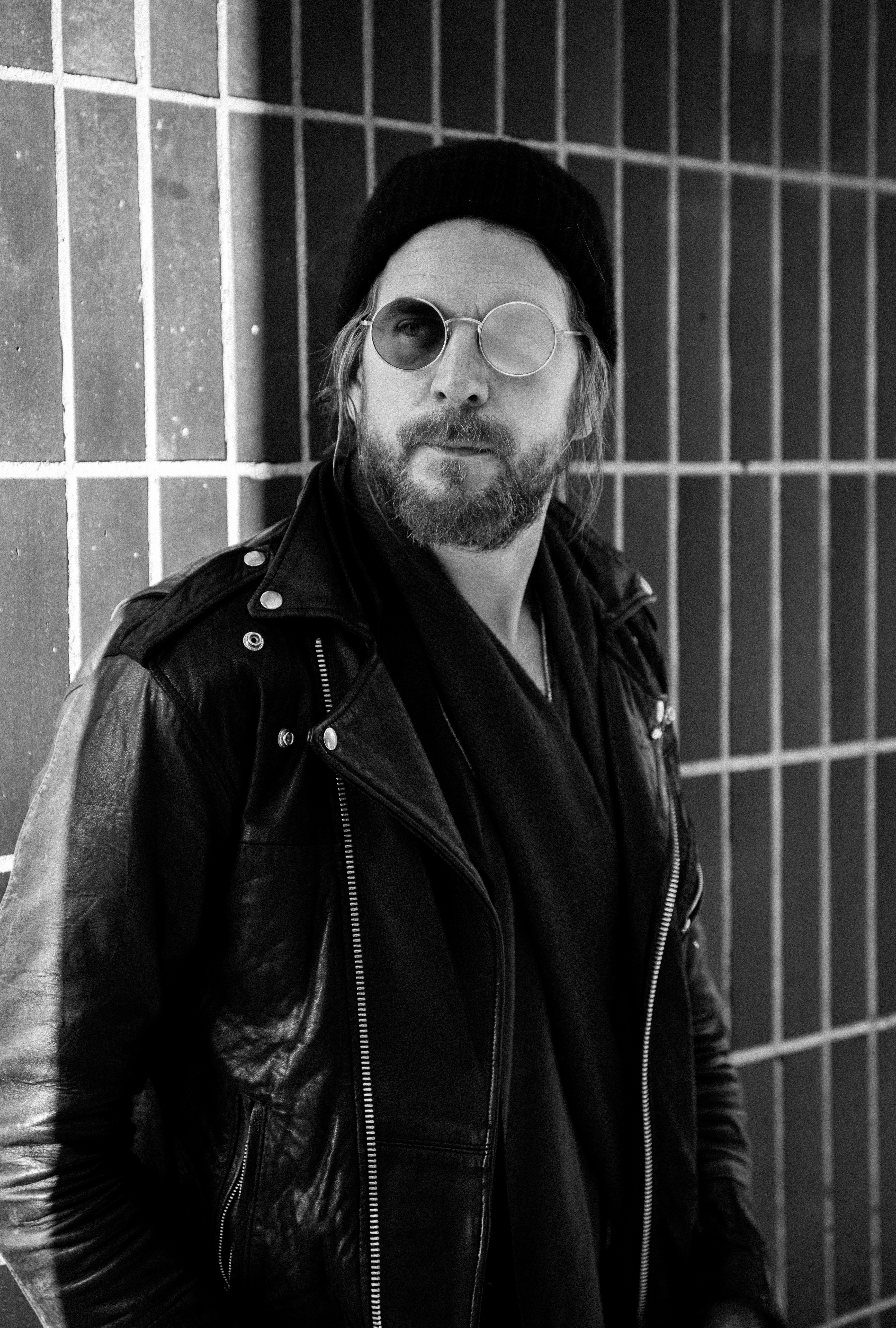 Taken in Copenhagen on the 5th of February 2020 in front of Vega